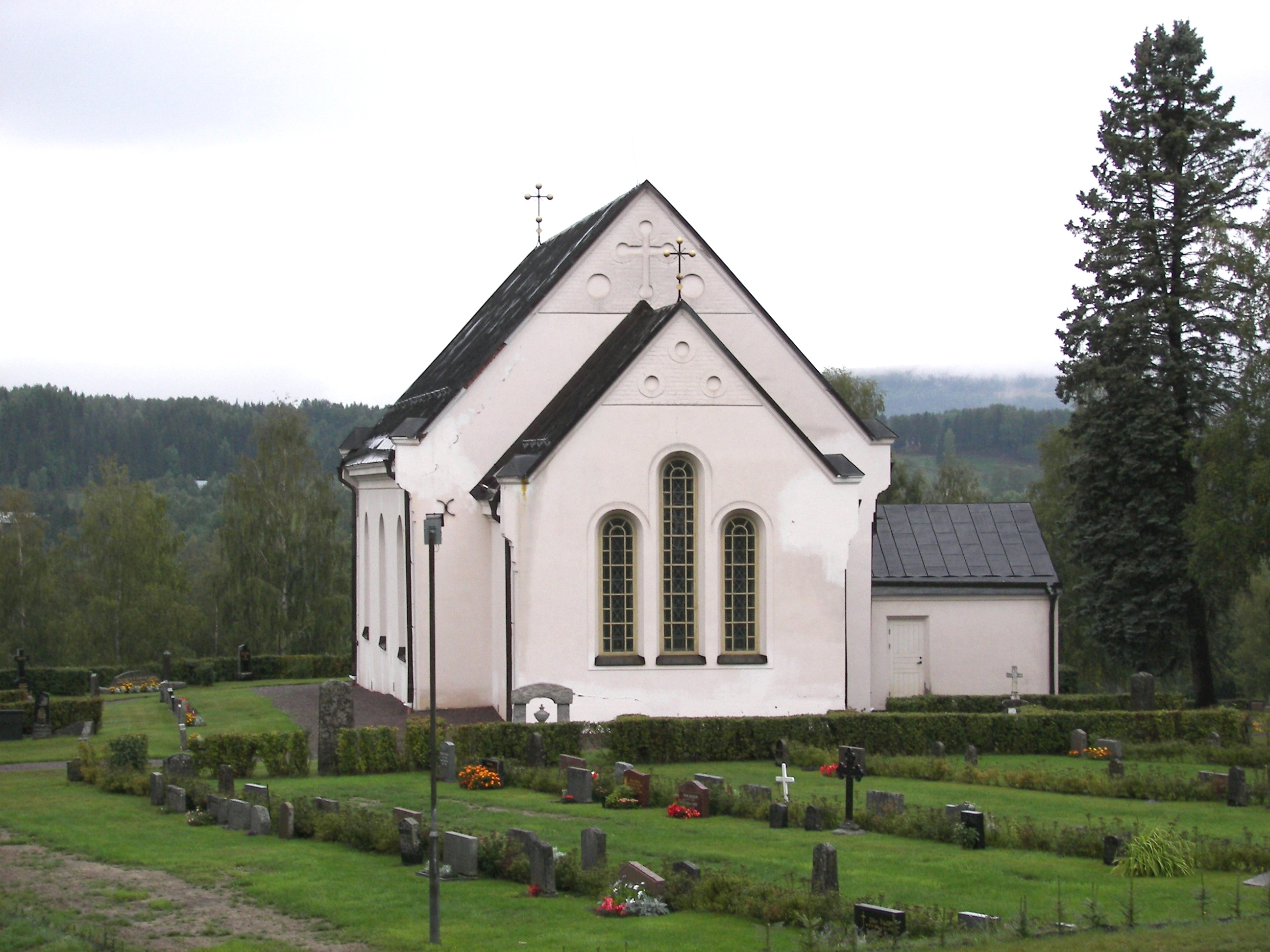 Ed church outside Sollefteå, Sweden.